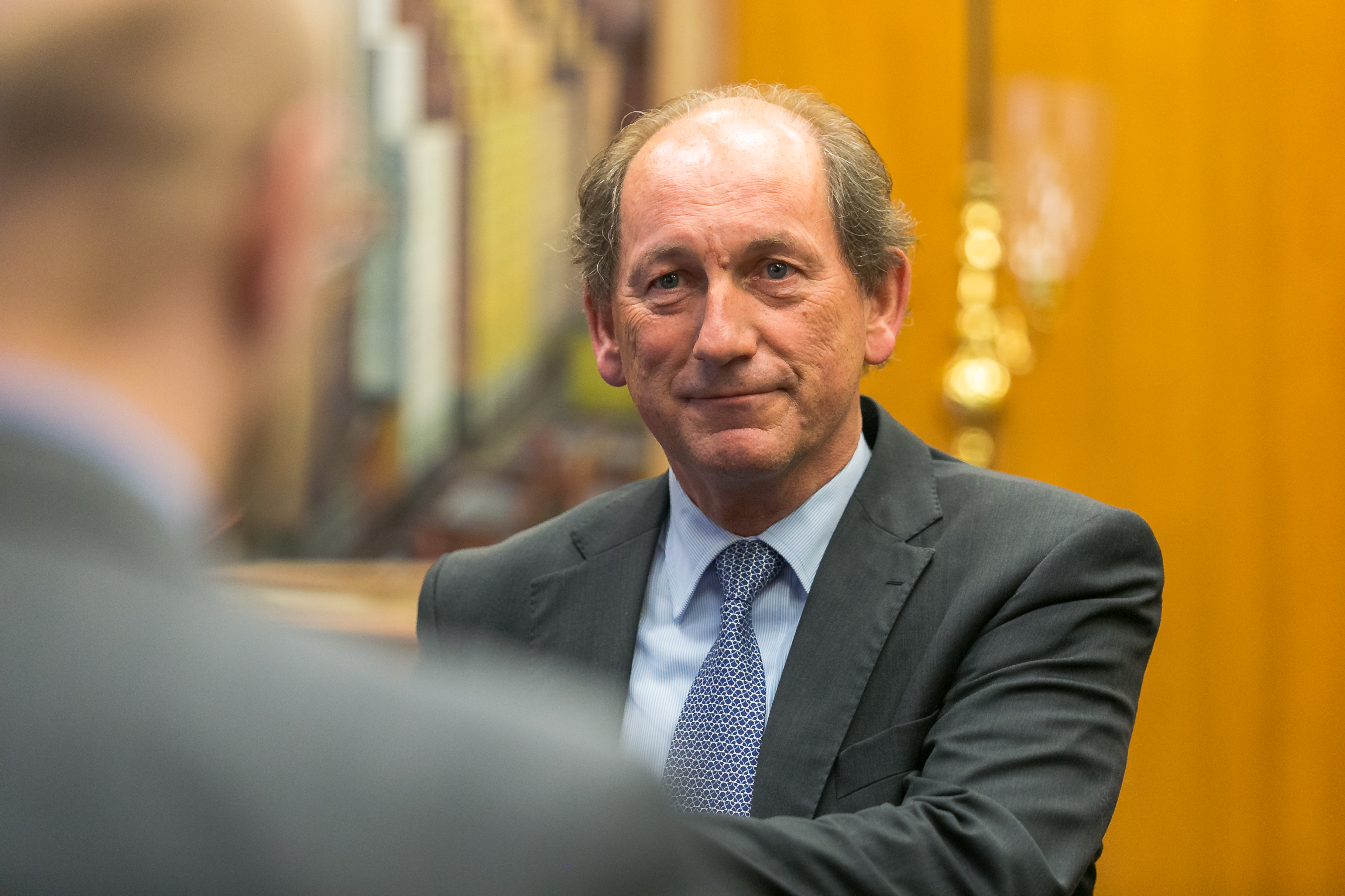 5 May 2016 - Washington, D.C. - Secretary of Labor Thomas Perez and Deputy Secretary of Labor Chris Lu greet Paul Bulcke, Nestlé CEO, Heather Boushey, Executive Director and Chief Economist of the Washington Center for Equitable Growth (formerly at CAP) Jaqueline Folk, Head of Benefits at Nestlé, Katarina Berg, Chief Human Resources Officer (CHRO) at Spotify, Dean Carter, VP for HR and Shared Services, Patagonia, Jenny Dearborn, SVP and Chief Learning Officer at SAP, Daniel Turner, President TCG before the panel discussion on paid family leave. Official Department of Labor Photograph*** Photographs taken by the federal government are generally part of the public domain and may be used, copied and distributed without permission. Unless otherwise noted, photos posted here may be used without the prior permission of the U.S. Department of Labor. Such materials, however, may not be used in a manner that imply any official affiliation with or endorsement of your company, website or publication. Photo Credit: Department of Labor